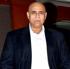 Puneet Issar at the launch of the film 'Barkha'